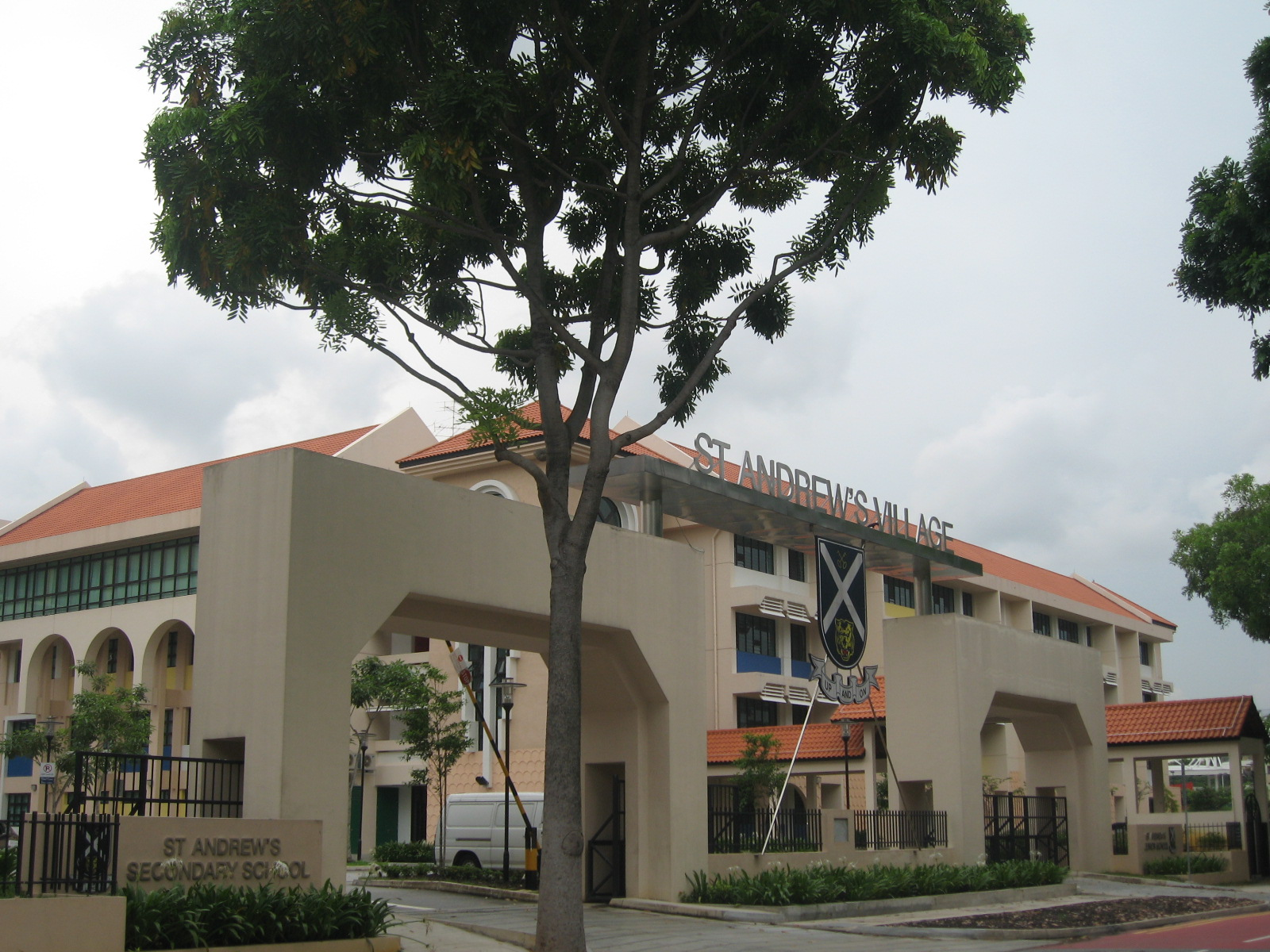 Saint Andrew's Village entrance.